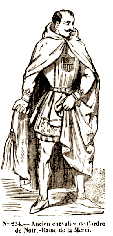 Mercéderaire_(chevalier);_Mercederian_(knight)